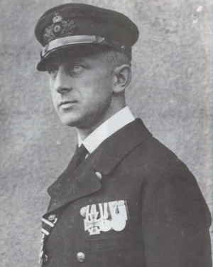 Kapitänleutnant Martin Dietrich